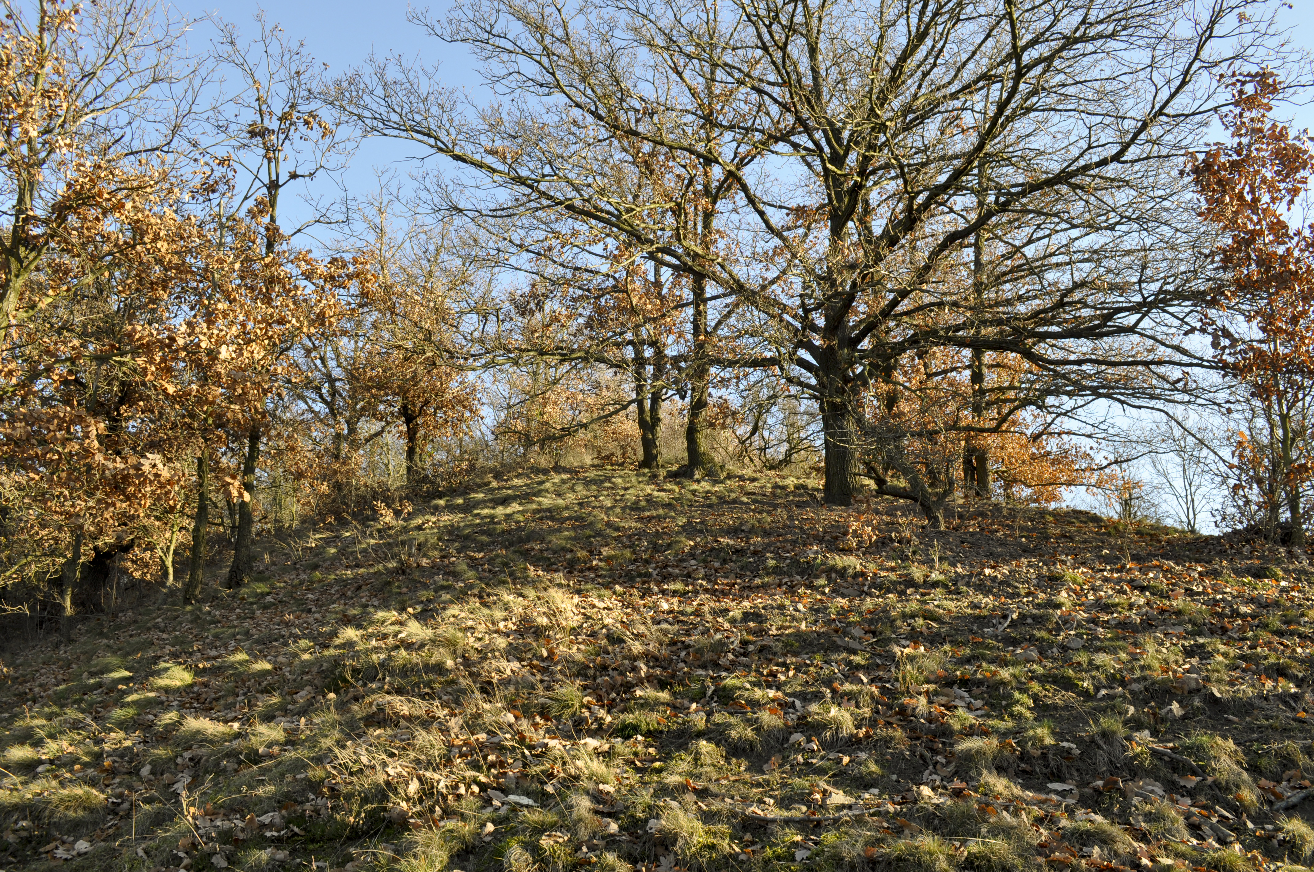 Natural Monument Zlatnice - forest-free area